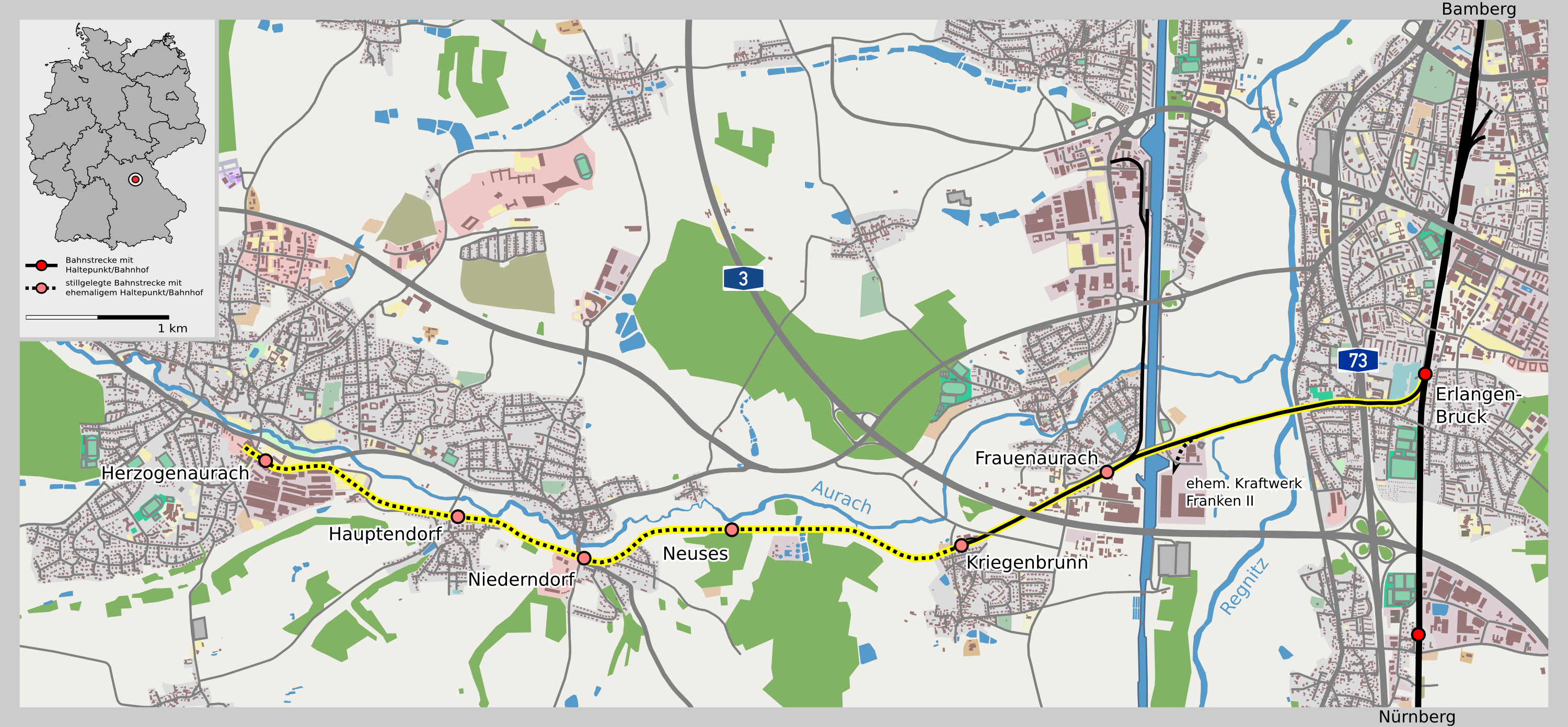 This map the Erlangen-Bruck–Herzogenaurach railway was created from OpenStreetMap project data, collected by the community.This map may be incomplete, and may contain errors. Don't rely solely on it for navigation.